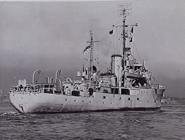 AWM caption : SYDNEY, NSW. 1944-03-06. STARBOARD QUARTER VIEW OF THE CORVETTE HMAS KIAMA (J353). SHE IS ARMED WITH A 4 INCH MARK XIX GUN ON A MARK XXIII MOUNTING FORWARD AND SINGLE 20 MM OERLIKON AA GUNS IN THE BRIDGE WINGS AND AFT. NOTE THE DEPTH CHARGES IN RAILS ON THE STERN AND ON THROWERS BEHIND THE BULWARK. TYPE 271 SURFACE SEARCH RADAR IS FITTED ABOVE THE BRIDGE AND SC AIR SEARCH RADAR IS CARRIED AT THE HEAD OF THE FOREMAST. (NAVAL HISTORICAL COLLECTION)